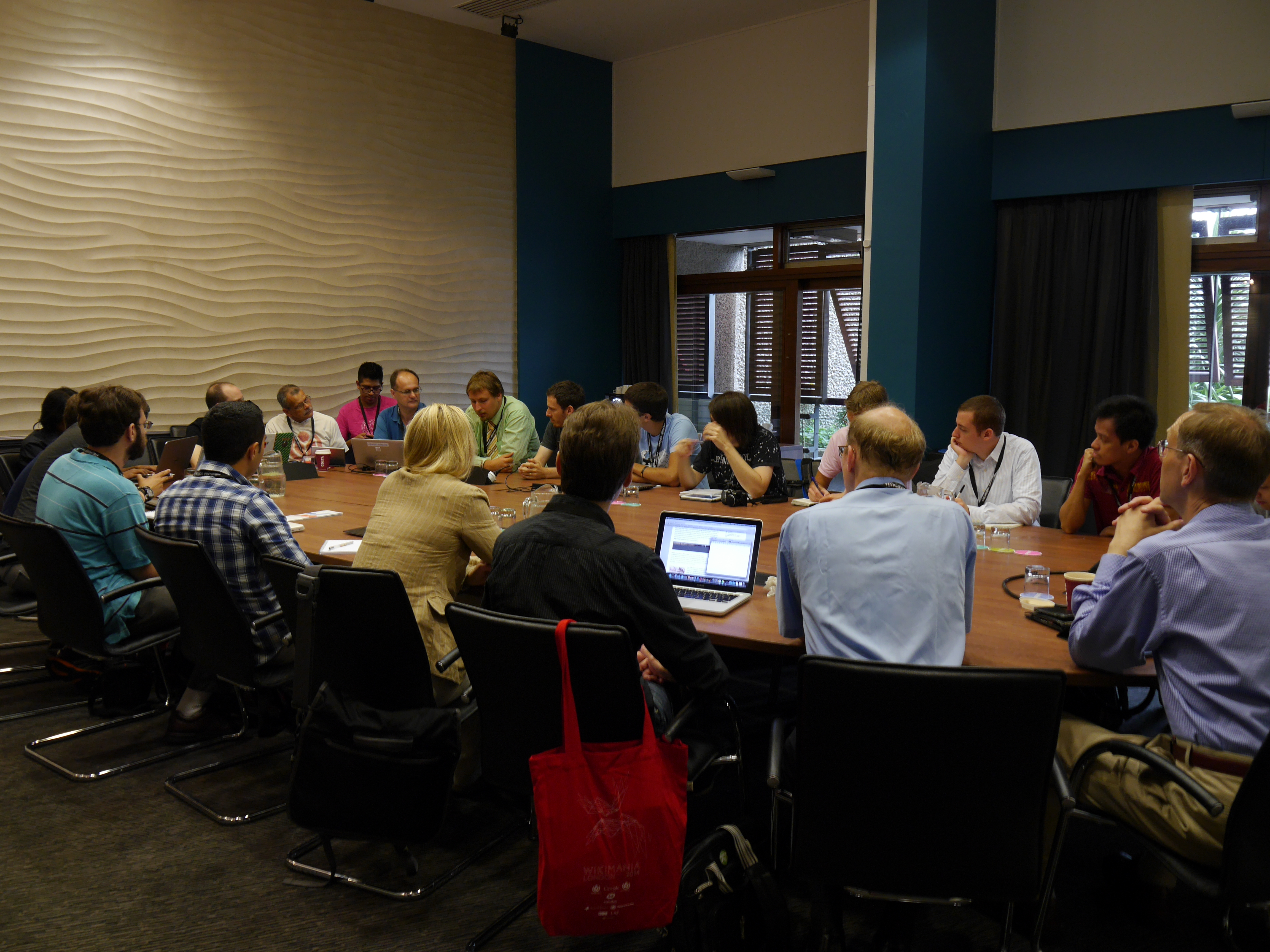 The Wikimedia Chapters' Chairpersons meeting at Wikimania 2014 was an invitation-only event for the chairpersons and equivalents of Wikimedia chapters to meet and discuss with Lila Tretikov, the new executive director of the Wikimedia Foundation.